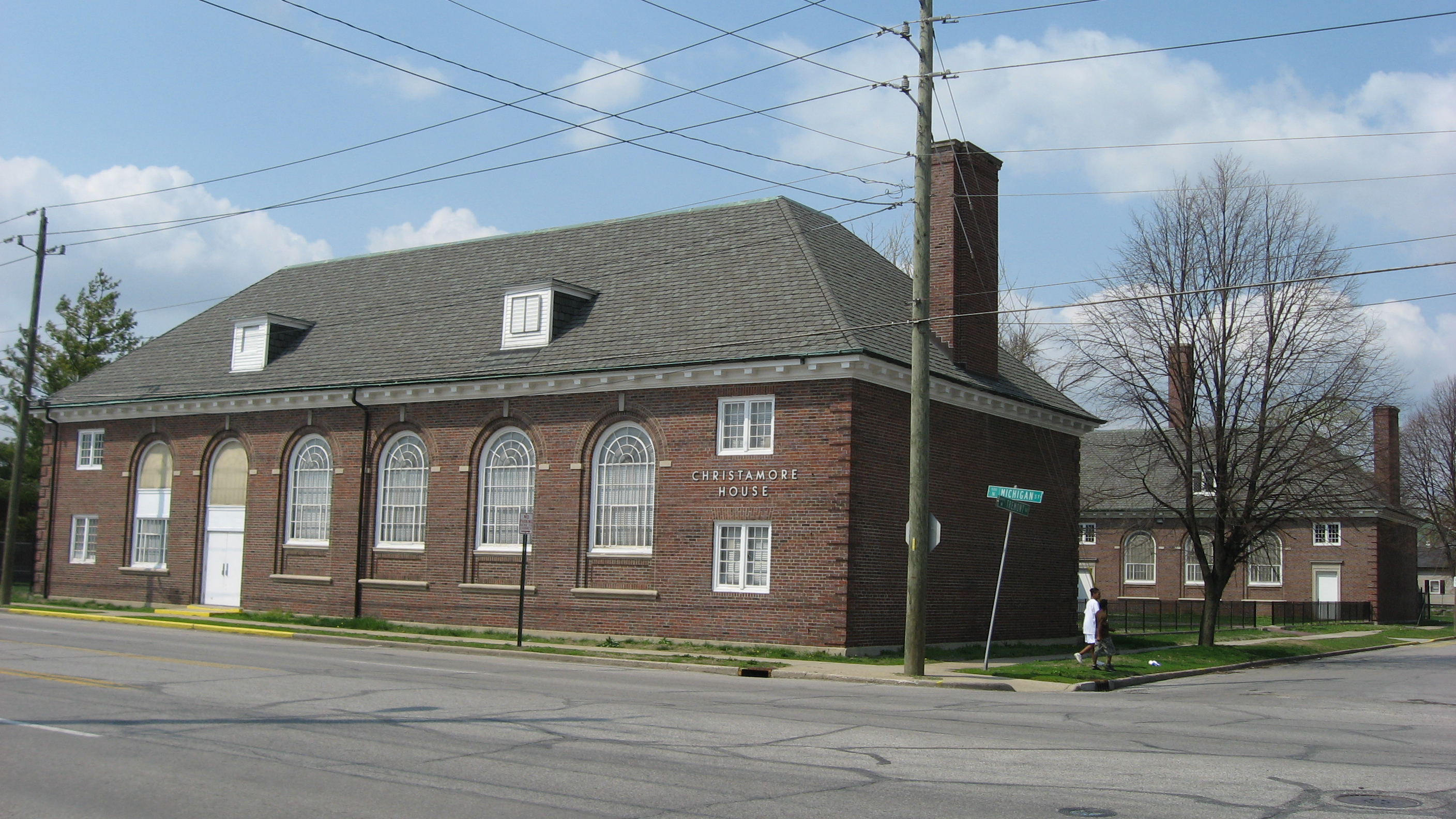 Southern end and eastern front of the Christamore House, located at 502 N. Tremont Street in Indianapolis, Indiana, United States. Built in 1924, it is listed on the National Register of Historic Places.